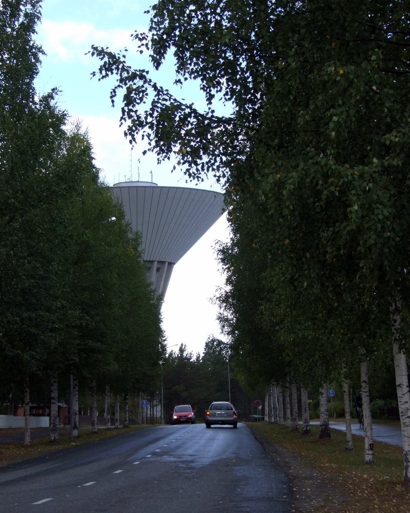 Knuutilankankaantie street with the Maikkula water tower in the background in Knuutila neighborhood in Oulu, Finland.